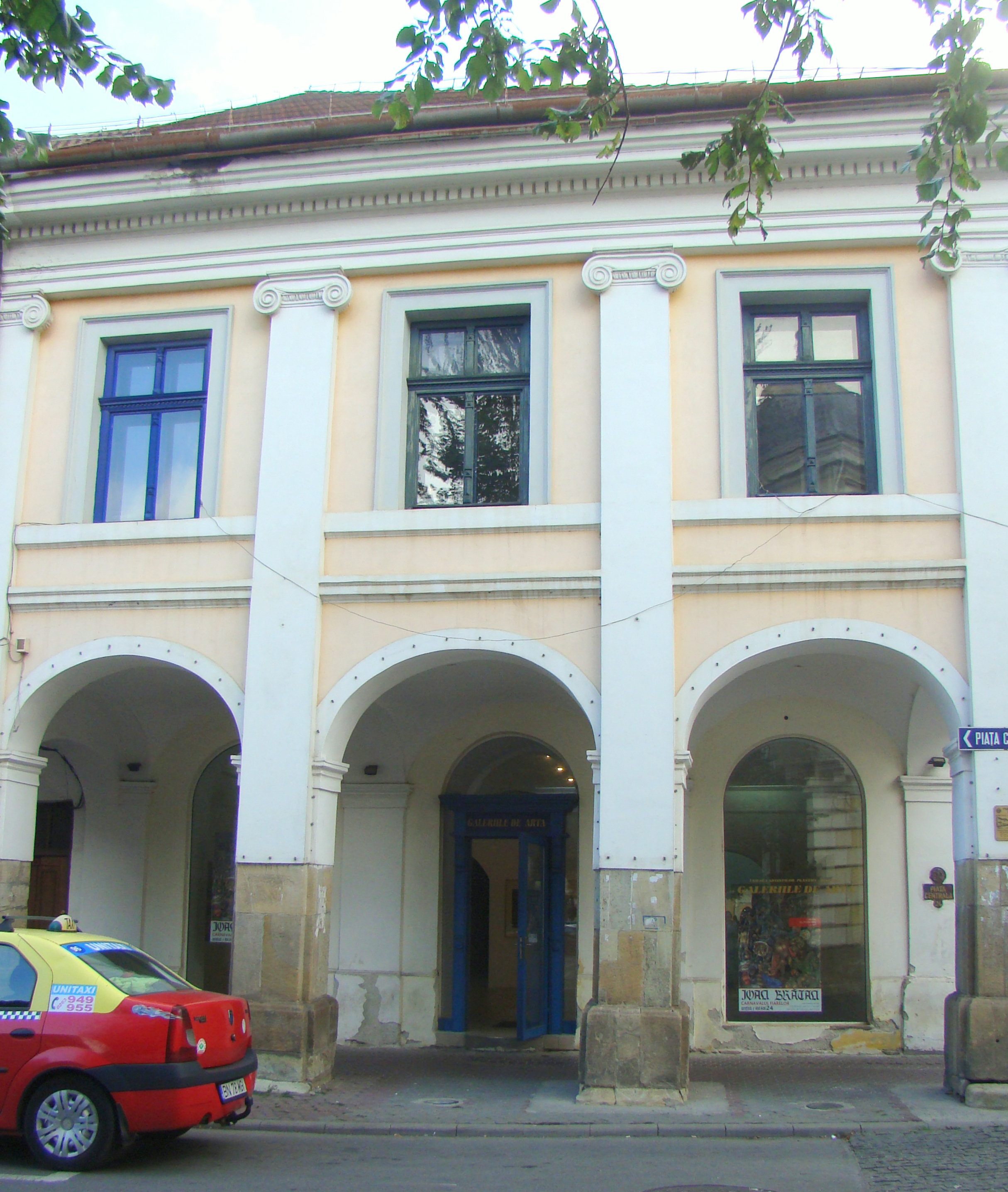 House, historic monument, in Bistrița, Piața Centrală 24